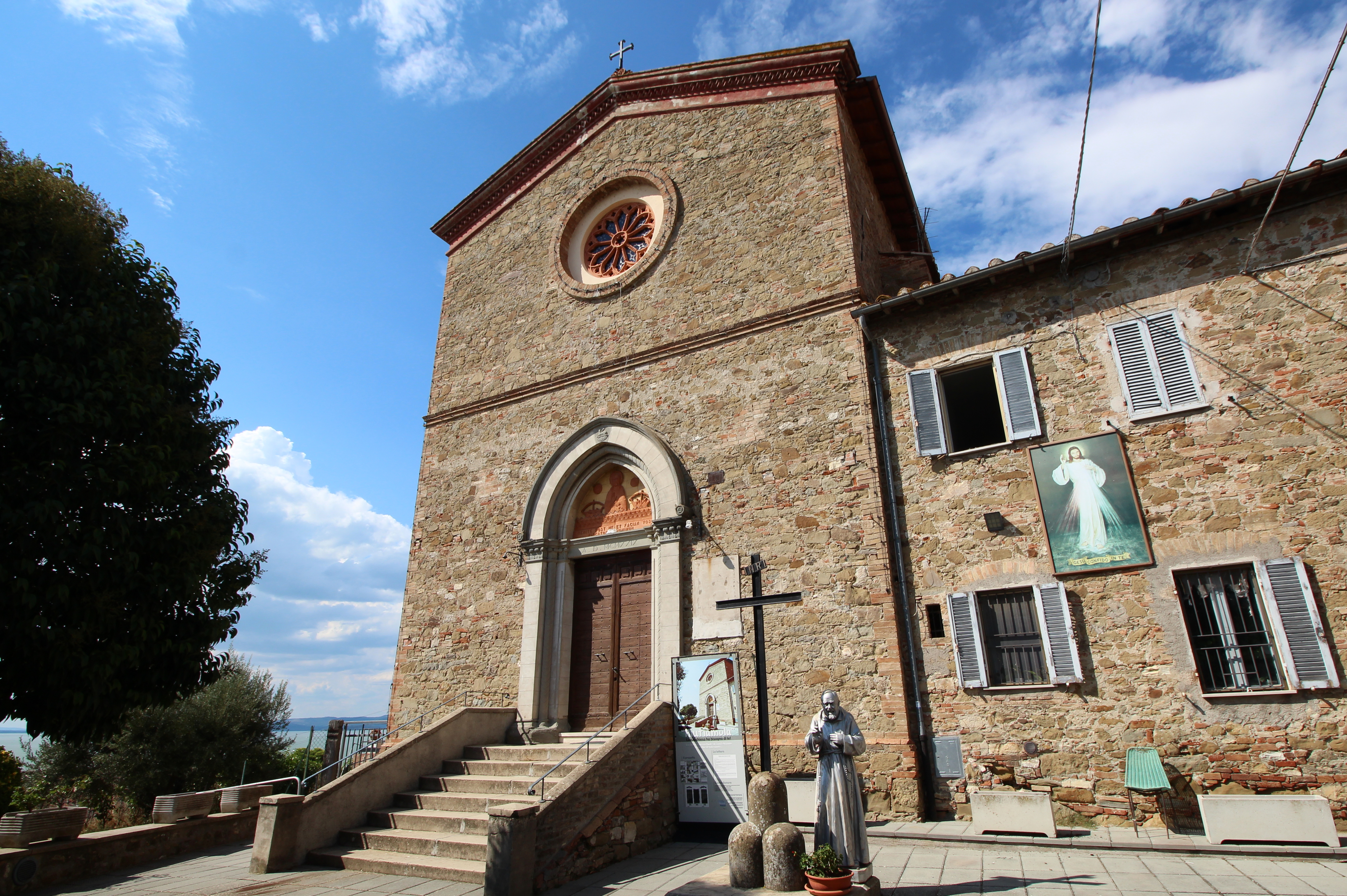 Church San Feliciano, in San Feliciano, hamlet of Magione, Umbria, Italy